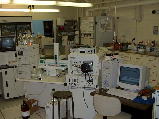 The Quattro II triple quadropole mass spectrometer in our lab in Whitmore Lab. Don't know why I'm posting this, but this is where I work. Hey Paul